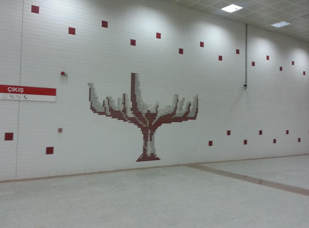 METU Underground destination in Ankara Metro.